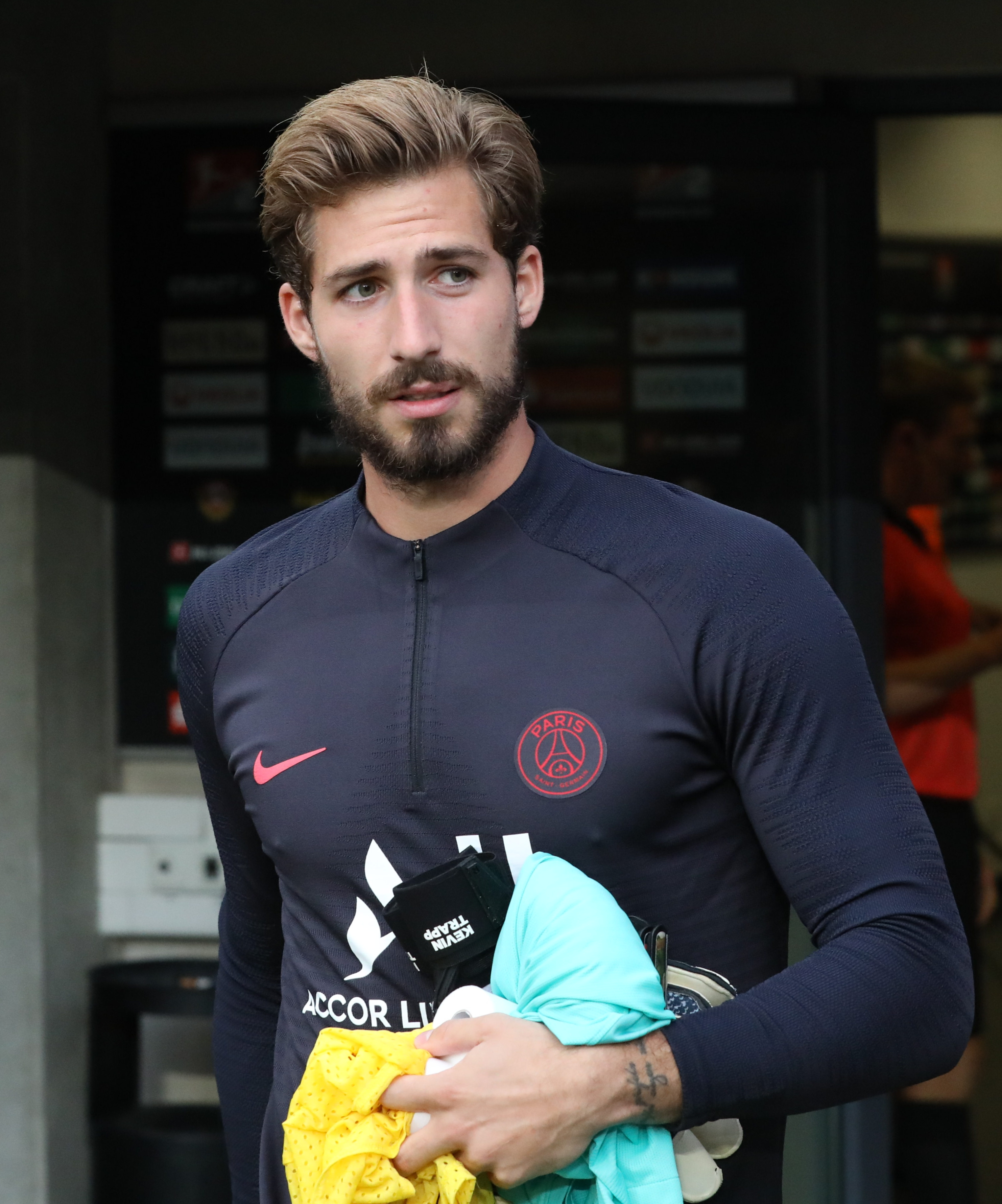 Test game, 17th July 2019: SG Dynamo Dresden vs. Paris Saint-Germain 1:6 (0:3)